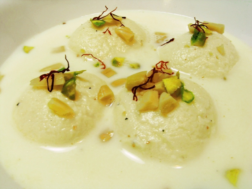 Ras Malai Sweet Dish